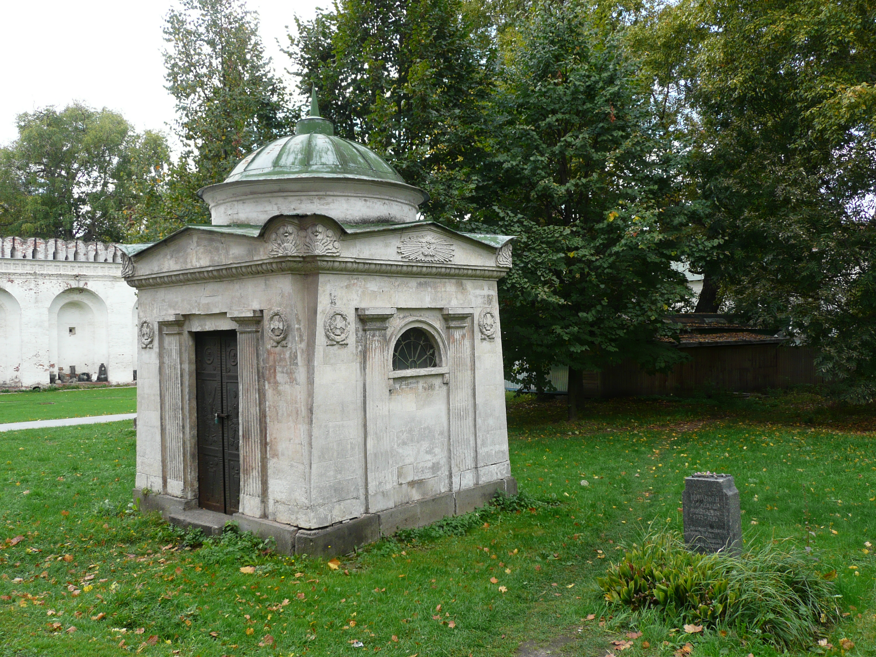 The Tomb of Prince Dmitry Volkonsky and his family, Novodevichy Monastery, Moscow